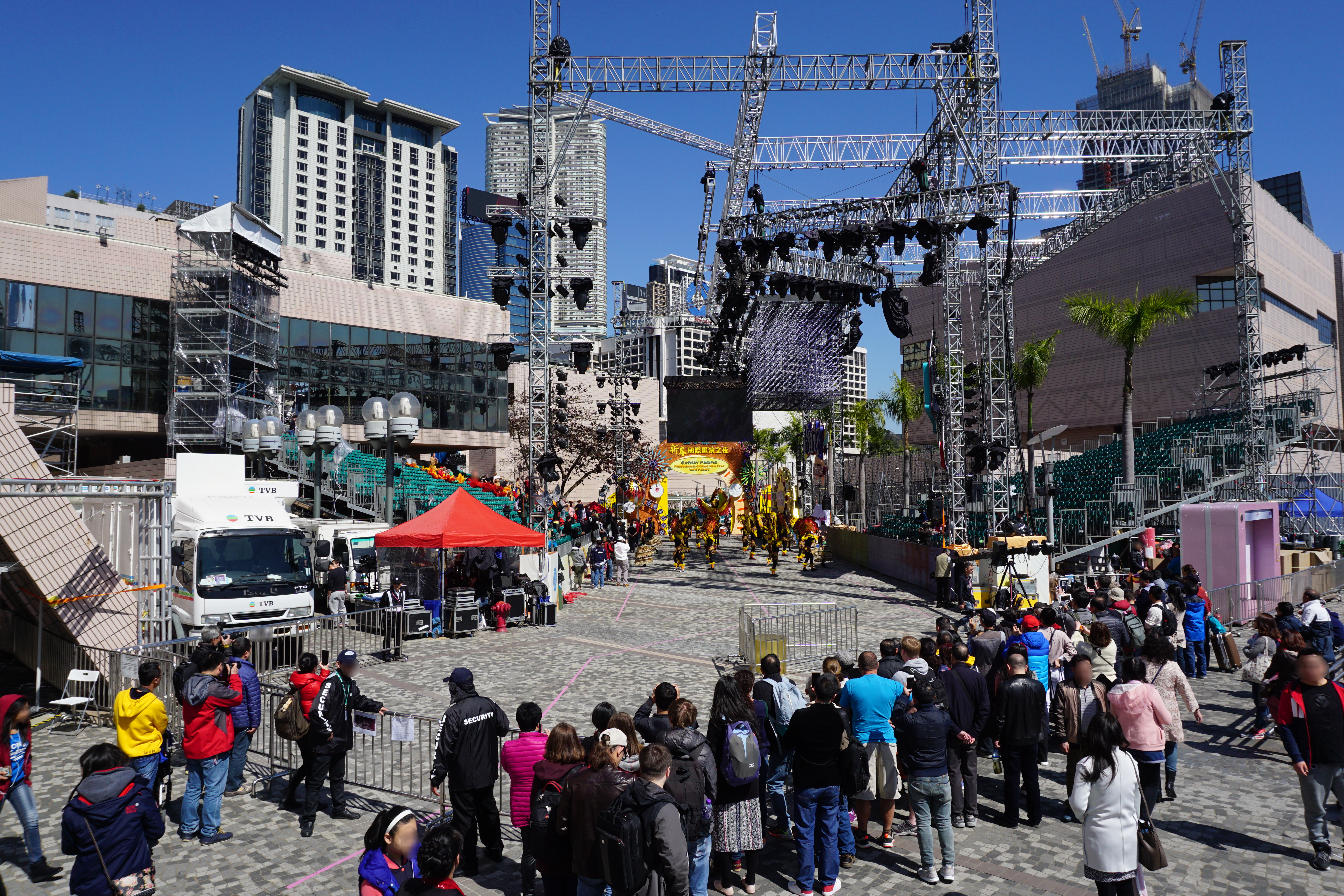 Cathay Pacific International Chinese New Year Night Parade (rehearse) in Tsim Sha Tsui, Hong Kong.